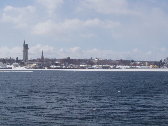 Self-taken photo.